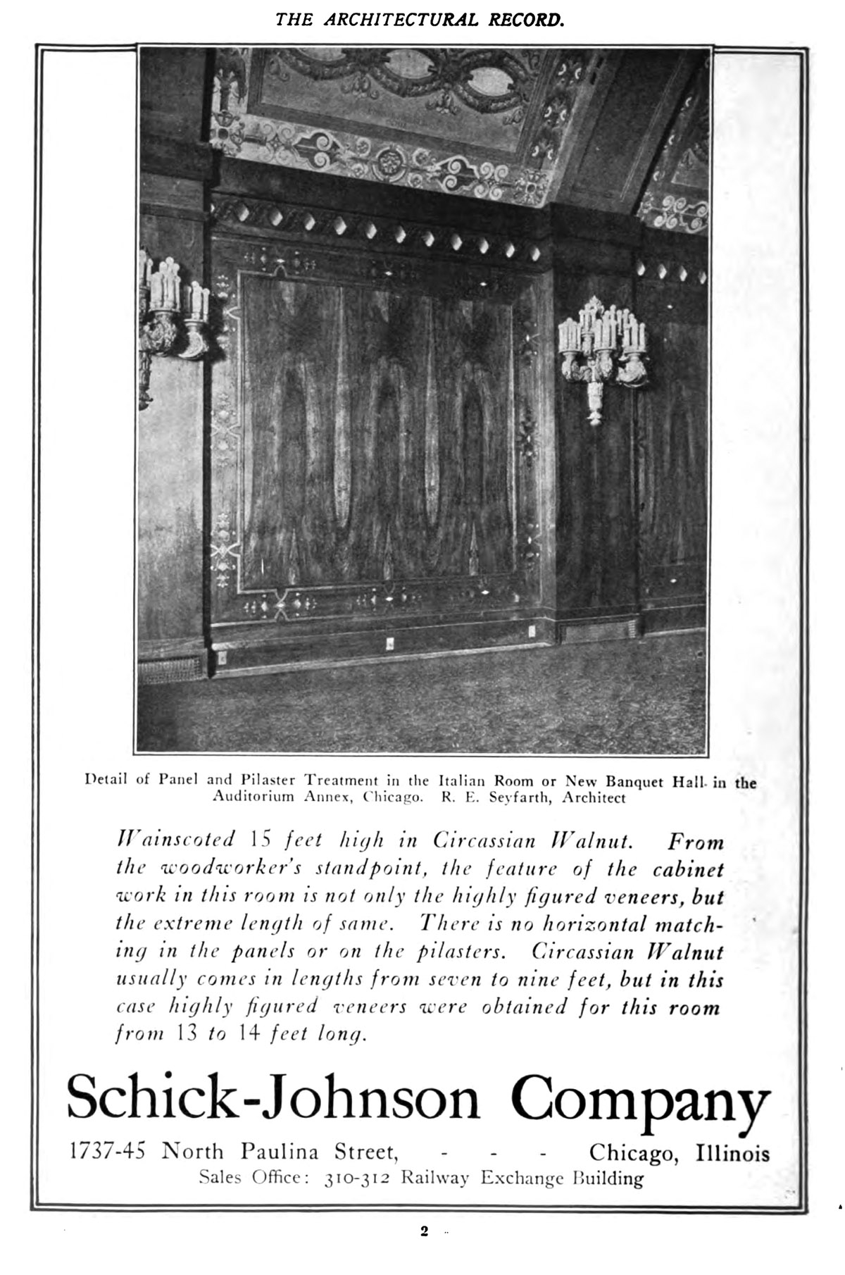 Ad advertisement for the Schick Johnson Company advertising a renovation of the Florentine Banquet Hall, designed by Robert Seyfarth, architect